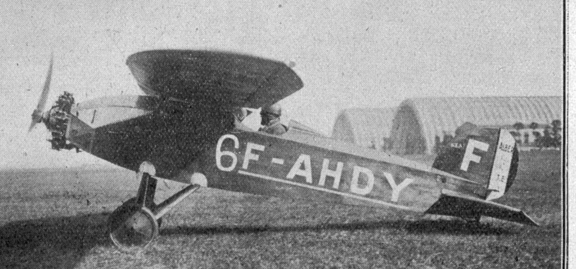 Albert TE.1 photo from L'Aérophile August,1926